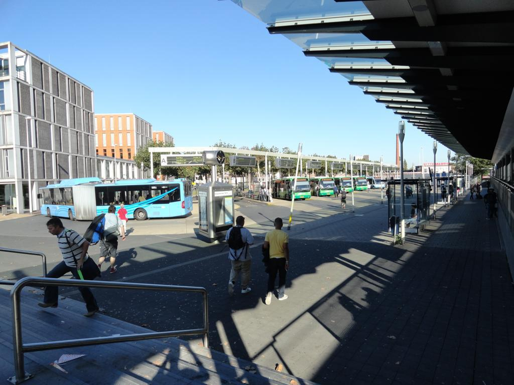 Apeldoorn Bus station